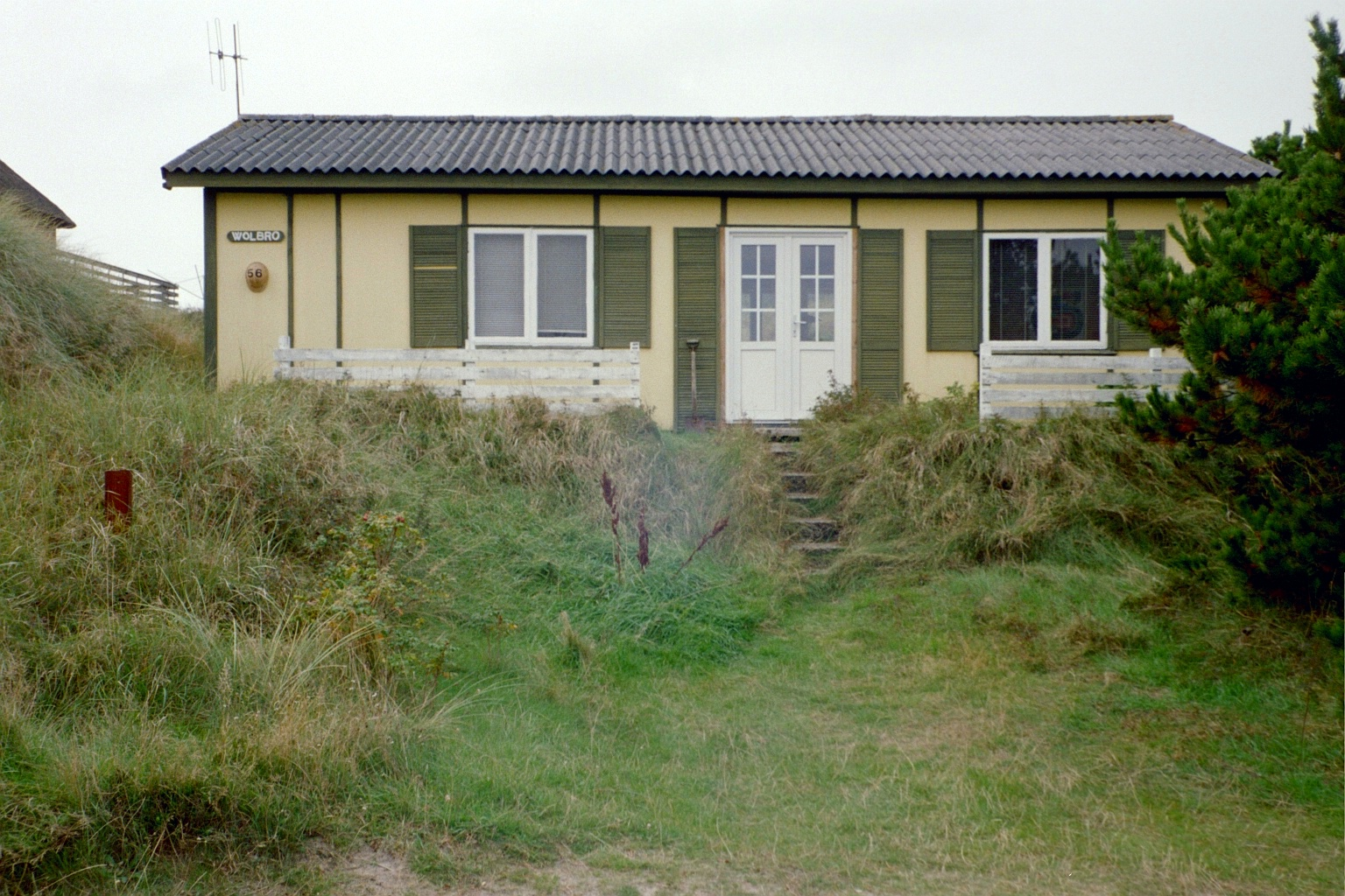 Cottage, Henne Strand, Denmark